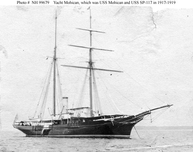 Steam yacht Mohican, prior to her United States Navy service as patrol vessel USS Mohican (SP-117) and USS SP-117